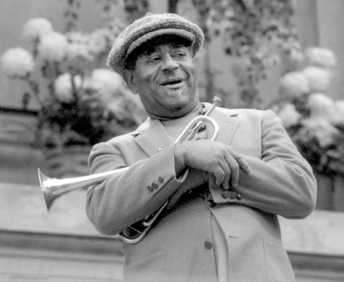 Dizzy Gillespie at UC Berkeley Jazz Festival, Greek Theater 1982. Photo by Brian McMillen /